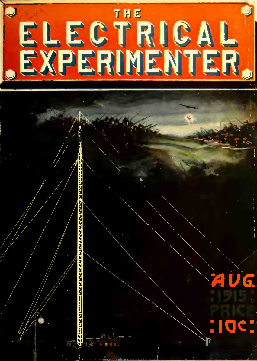 The Telefunken wireless telegraphy station at Sayvillve, New York. Title of painting: "Sayville (N. Y.) Wireless Receiving German War Report"